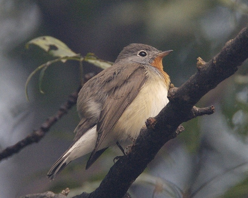 Red-breasted Flycatcher Ficedula parva, winter adult male. Keoladeo National Park, Rajasthan, India.